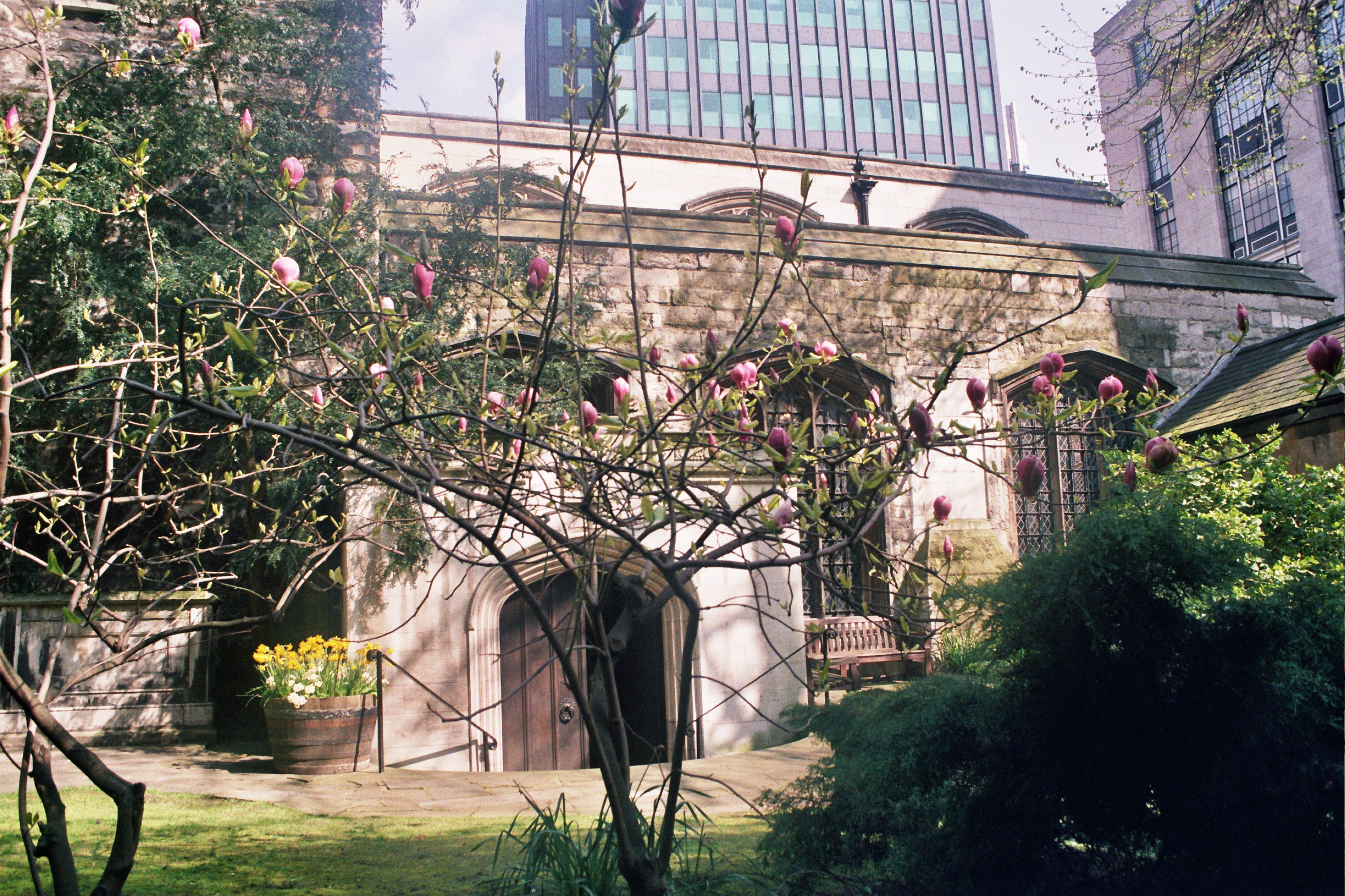 Part of St Olave's parish church, London EC3, seen from the south